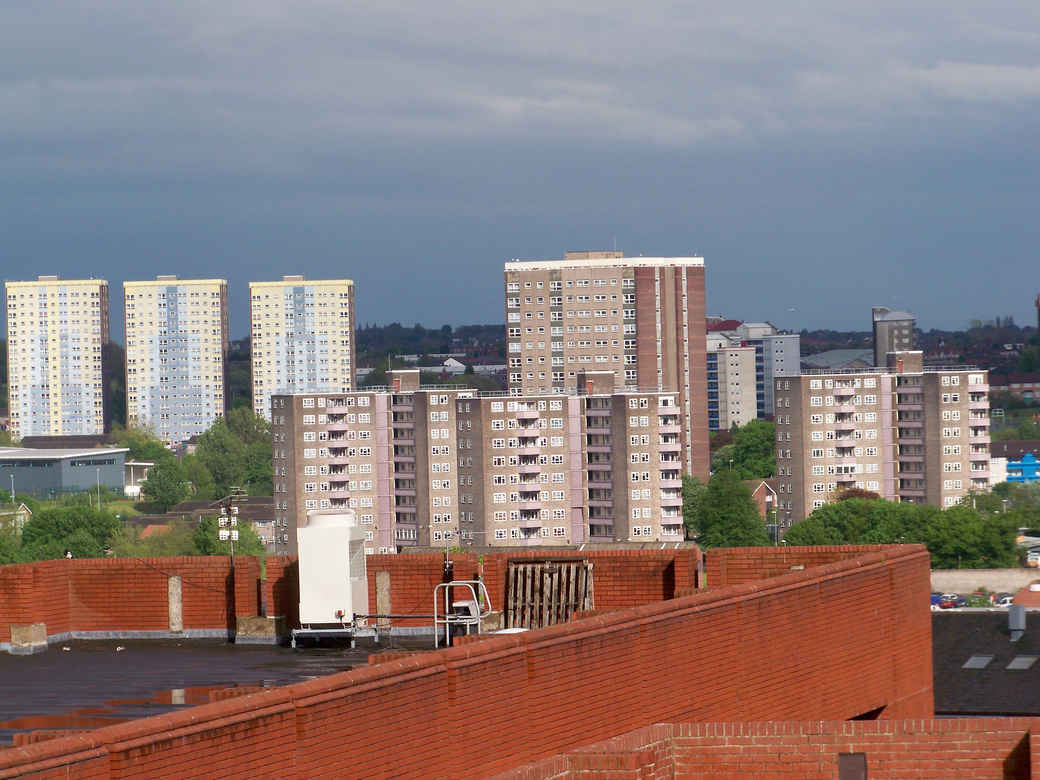 A view of Burmantofts showing mainly high rise flats taken from the Merrion Centre Multi Storey car park in Leeds City Centre on the 9th May 2009.